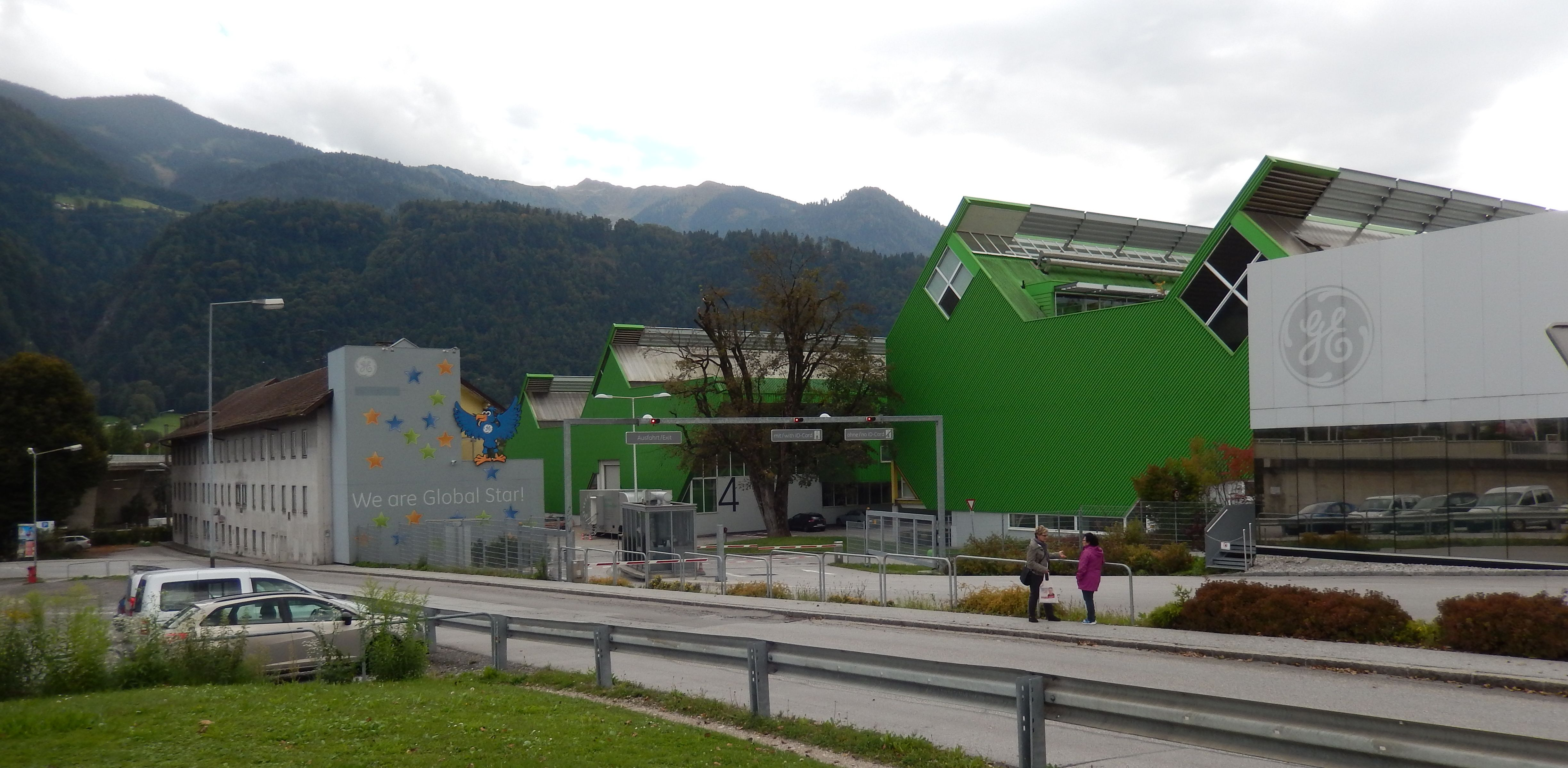 GE Jenbacher in Jenbach, Austria.